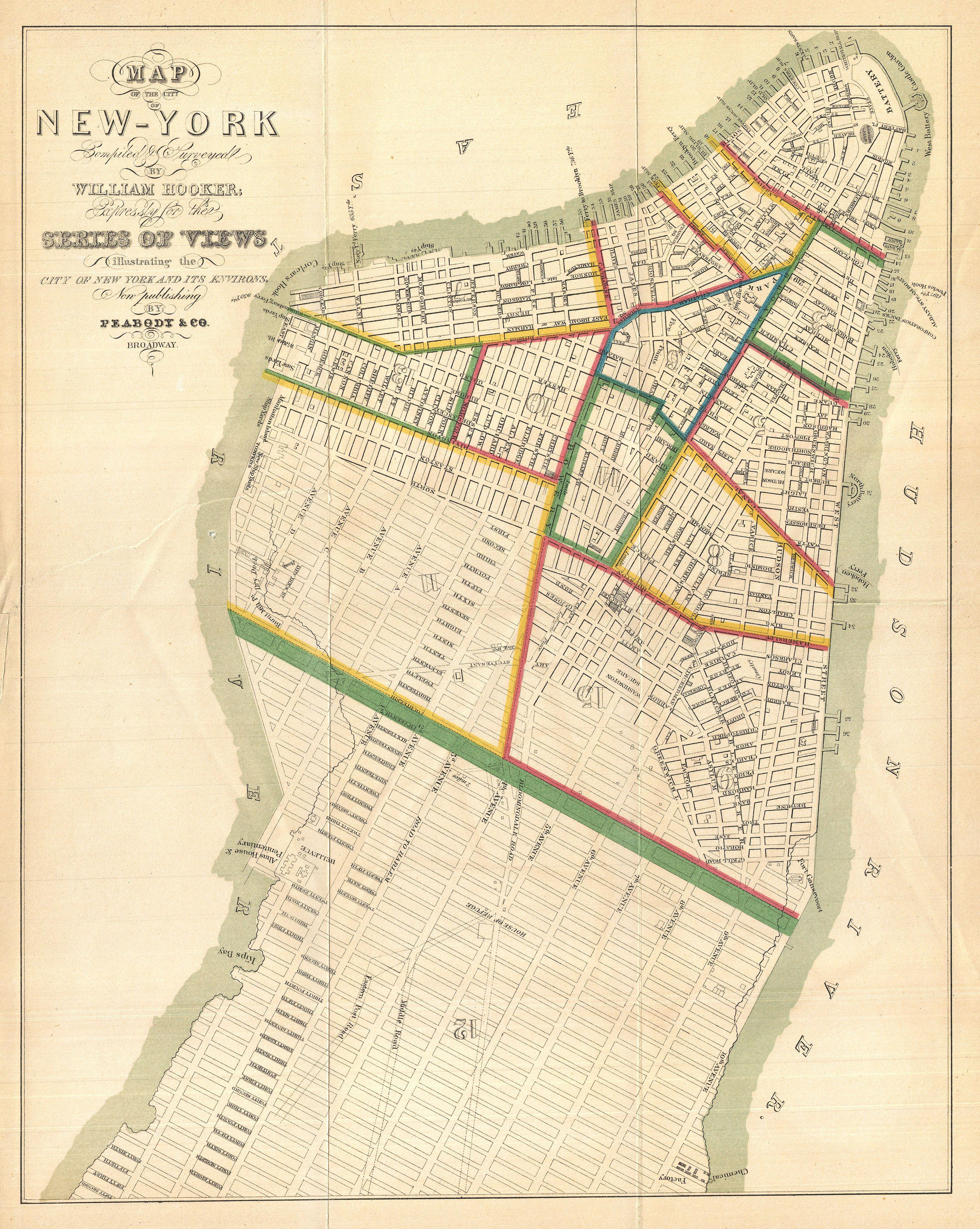 This is an unusual map of New York City first issued in 1831 by William Hooker and Peabody. This example is a reissue, apparently from the same plate, dating to the Hardy edition of the Manual of the Corporation of New York , 1871. Perhaps this map’s most striking feature is the fact that the orientation of the map and the orientation of the title are at odds. We have stumbled across this piece a few times from both the first and second issues, and all examples exhibit the same conflicting orientation. Since this map was originally published to supplement a book of pictures and views of New York and vicinity by T.S. Fay, we can speculate that the limited budget of the publisher, Peabody and Company, made a reissue of the map impractical despite the orientation error. Cartographically this map claims to be the culmination of original survey work accomplished by William Hooker, but to our eye is a clear copy of Burr’s contemporaneous pocket map of New York City. Hooker’s map, like Burr’s names all streets and identifies city wards from the Battery to 52nd Street. Important buildings, docks, topographical features, and parks are noted. Though originally issued in 1831 for T.S. Fay’s Views in the City of New-York and its Environs , this example is a reissue prepared by John Hardy, Clerk of the Common Council, for the 1871 edition of the Manual of the Corporation of New York .